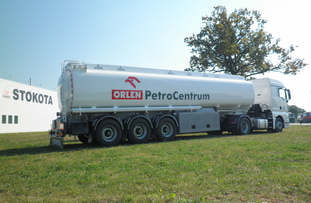 Полуприцеп-цистерна для транспортировки светлых нефтепродуктов